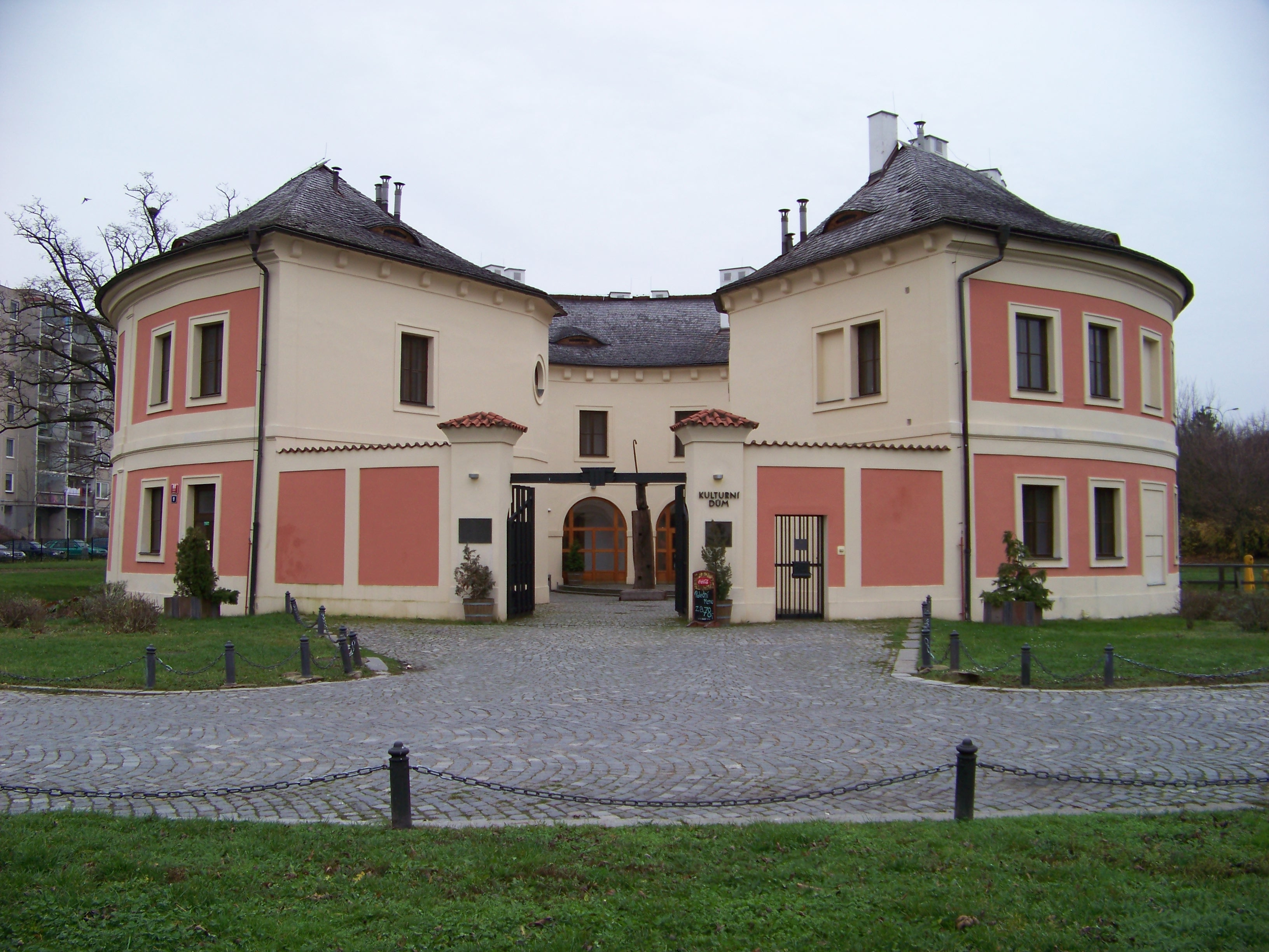 Prague-Chodov, the Czech Republic. Chodov water castle. - Google Maps - Google Earth